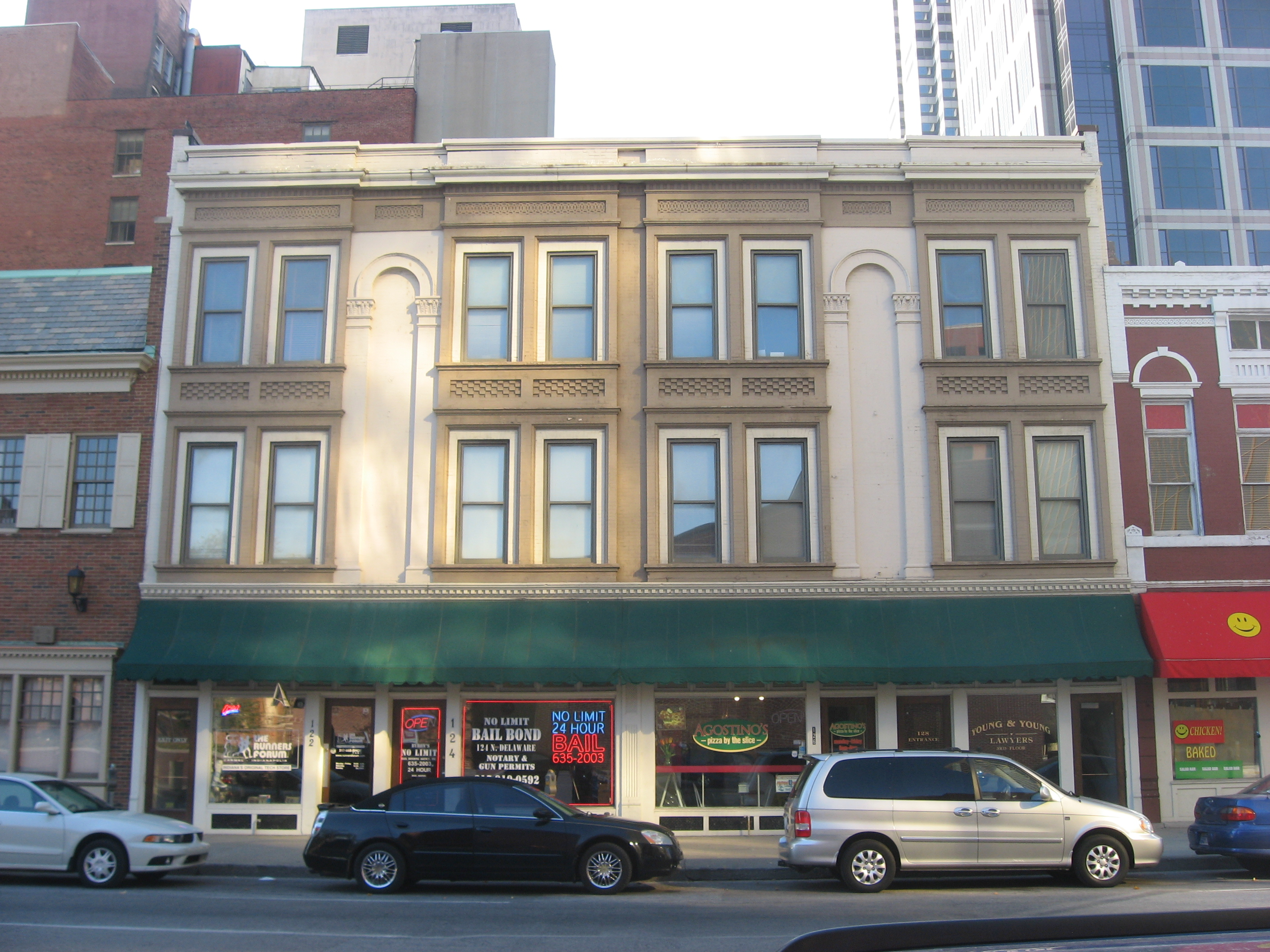 Front of the Delaware Flats, located at 120-128 N. Delaware Street in Indianapolis, Indiana, United States. Built in 1887, it is listed on the National Register of Historic Places.